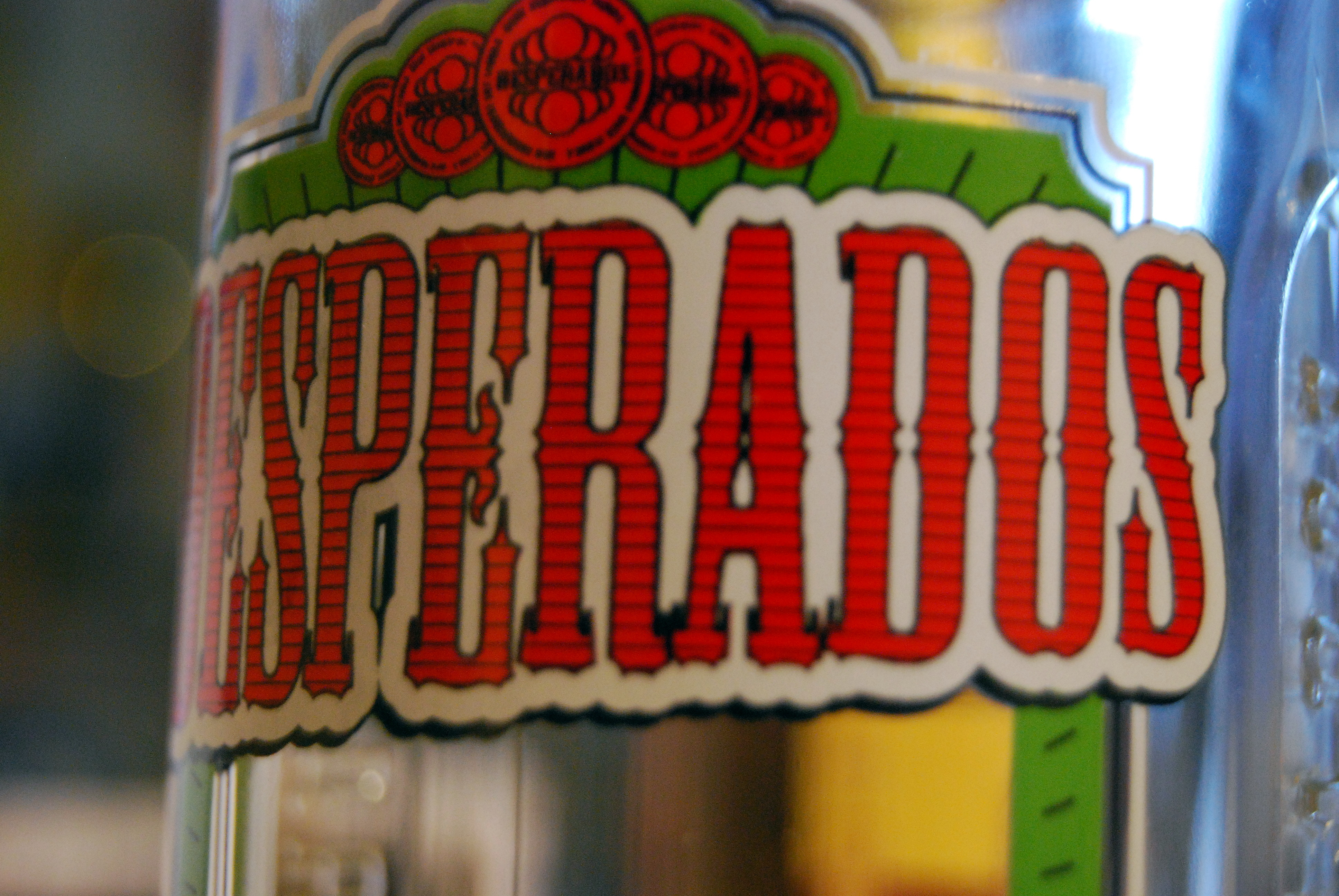 a desperado's beer glass